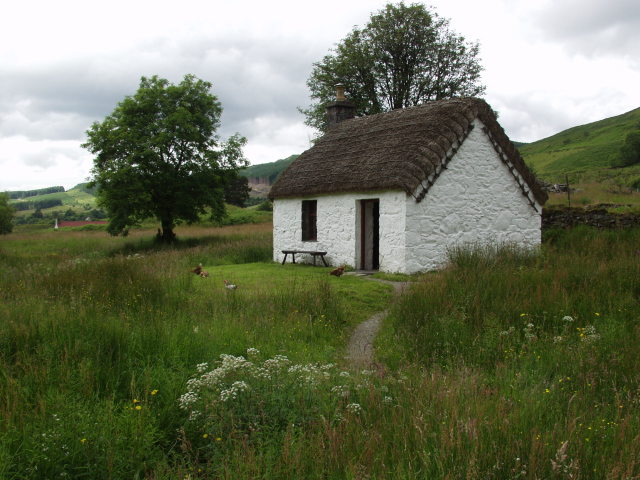 Auchindrain. Restored crofter's house at Auchindrain folk museum